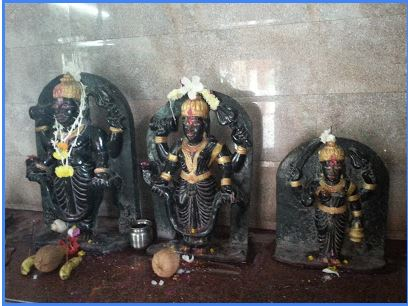 Lord Bhairava clicked in Vele-Kamthi temple of Satara